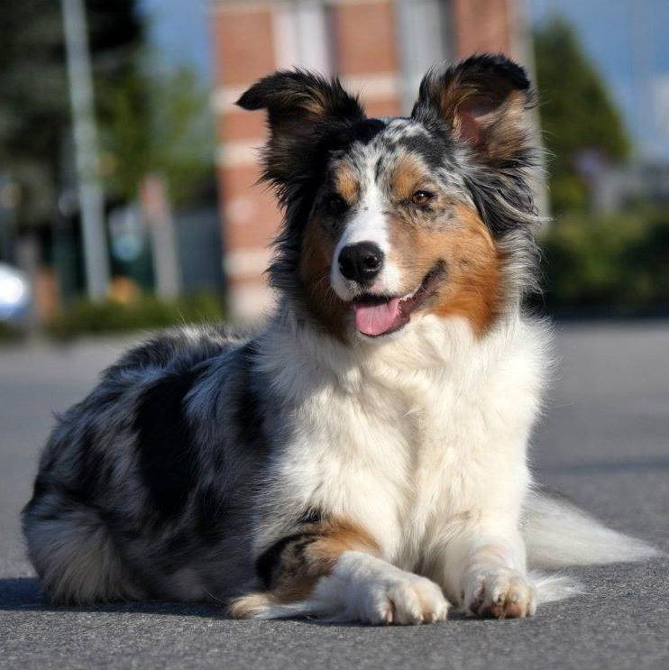 Blue merle tan